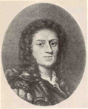 Fanish pharmacist Johann Gottfried Becker (1639–1711)